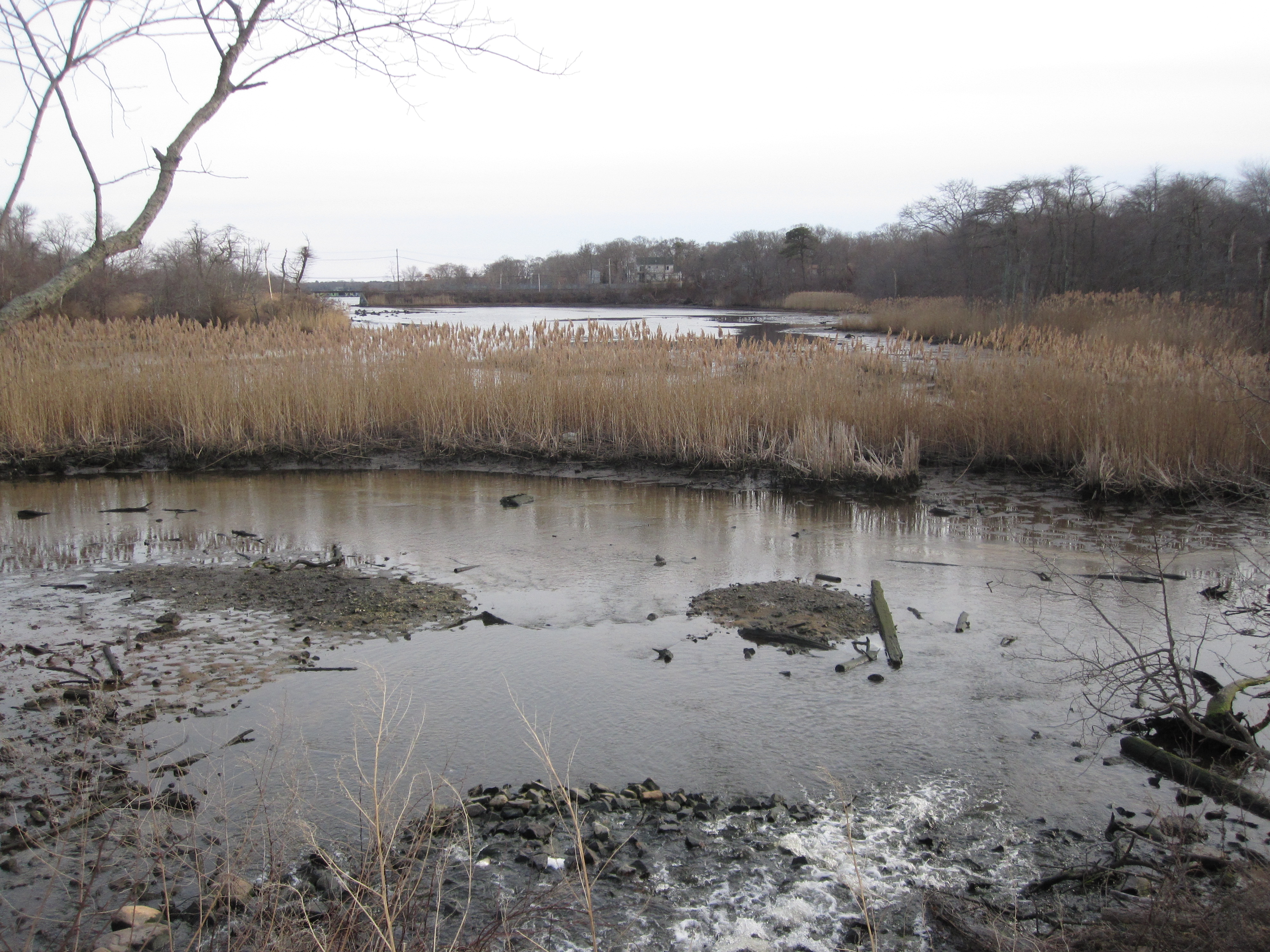 Forge River south of Montauk Hwy Mastic New York... Steve Van